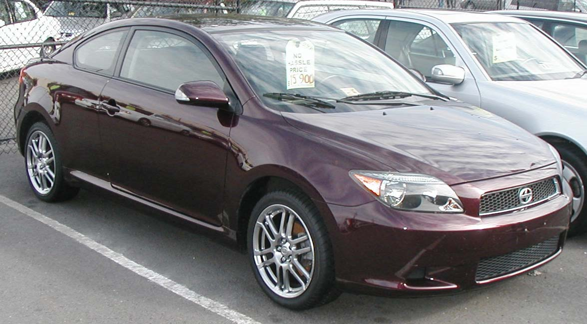 2005-2006 Scion tC photographed in USA.